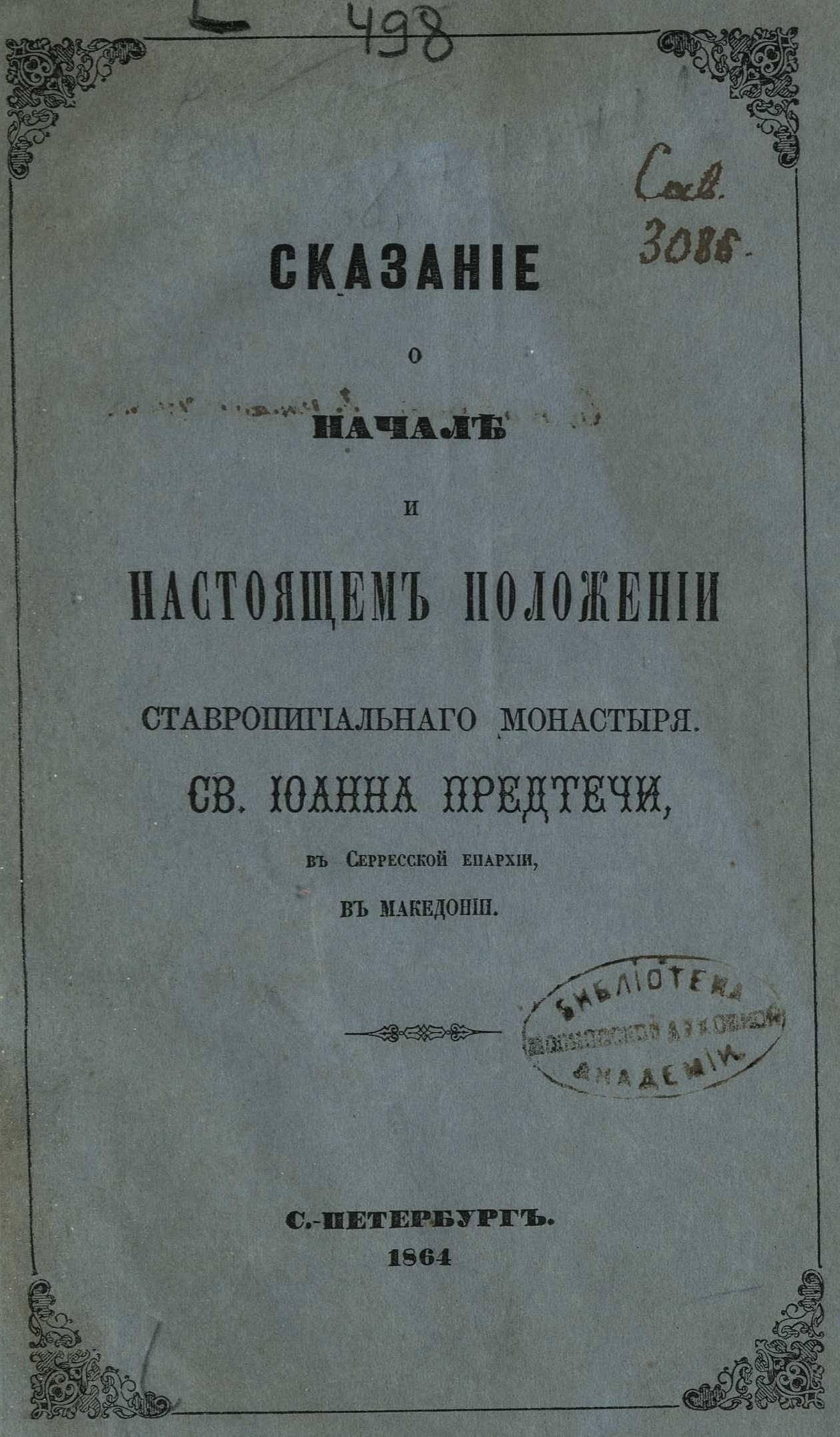 "Сказанiе о началѣ и настоящемъ положенiи ставропигиальнаго монастиря Св. Iоанна Предтечи въ Серрескiй епархiи въ Македонiи